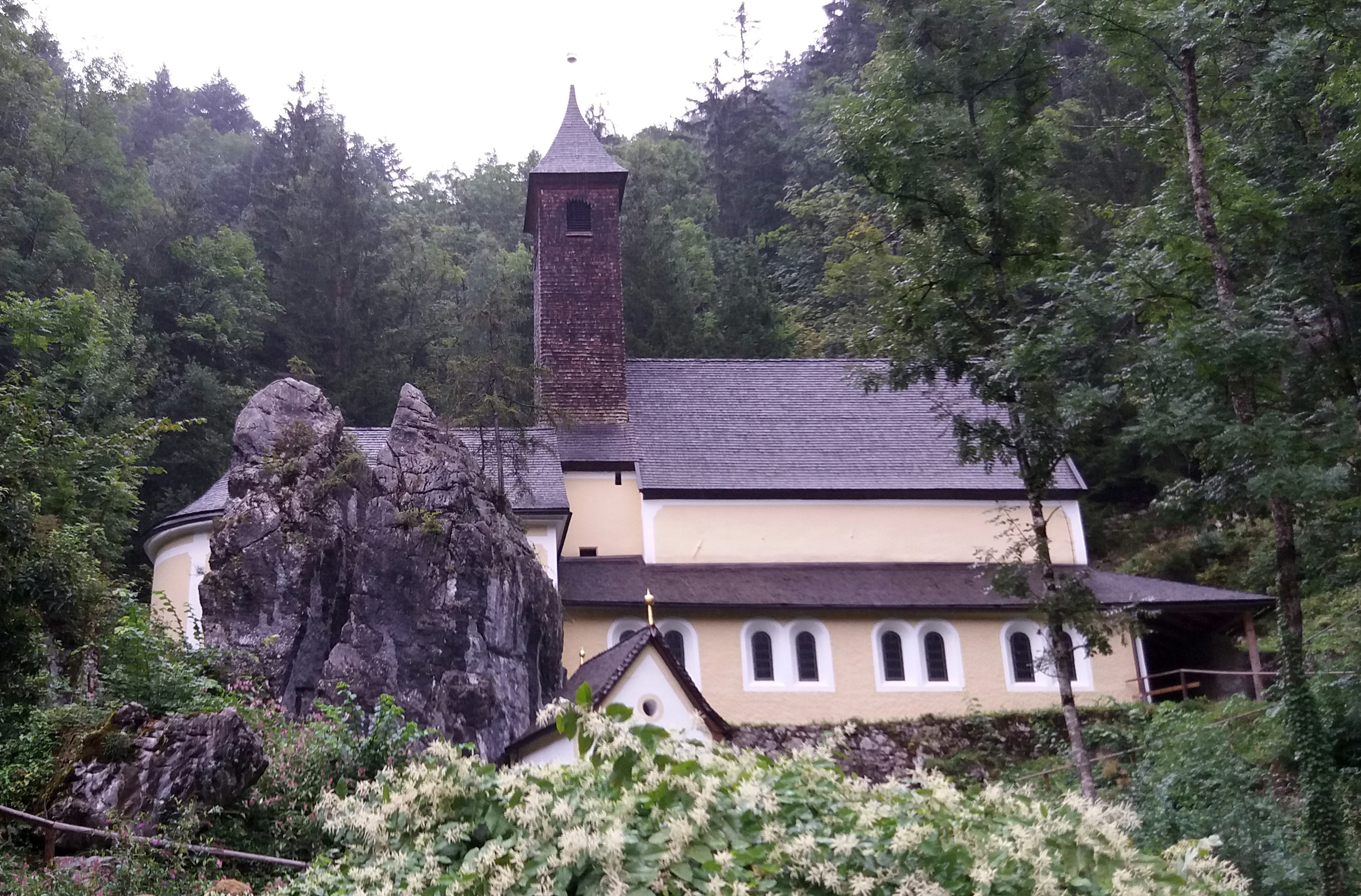 Maria Klobenstein with the eponymous split stone